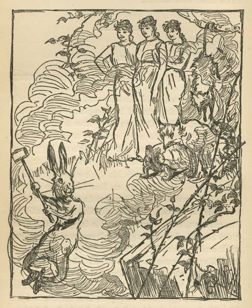 Br'er Rabbit, Br'er Fox, Br'er Tarrypin, and some dream women from Uncle Remus, His Songs and His Sayings: The Folk-Lore of the Old Plantation, by Joel Chandler Harris, p. 128. Illustrations by Frederick S. Church and James H. Moser. New York: D. Appleton and Company, 1881.